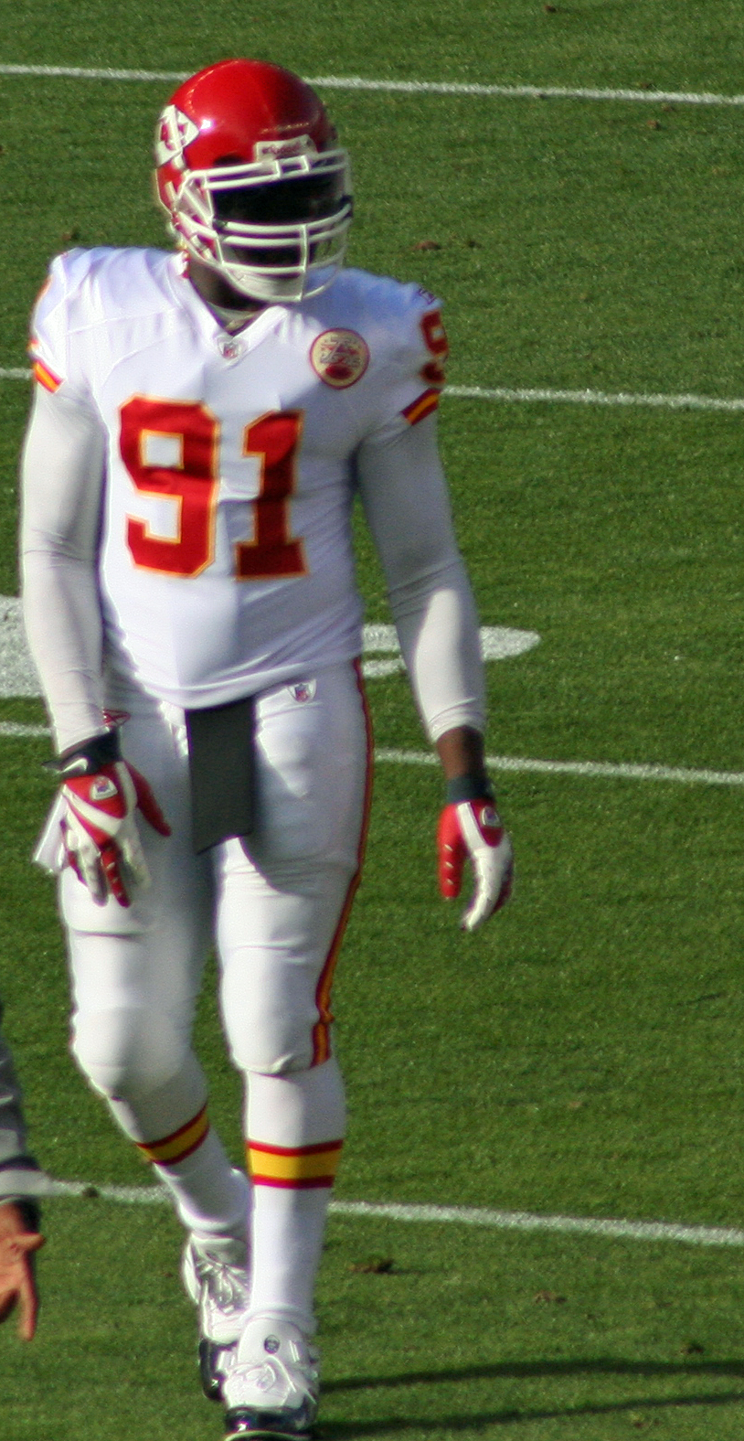 Tamba Hali, a player on the Kansas City Chiefs American football team.